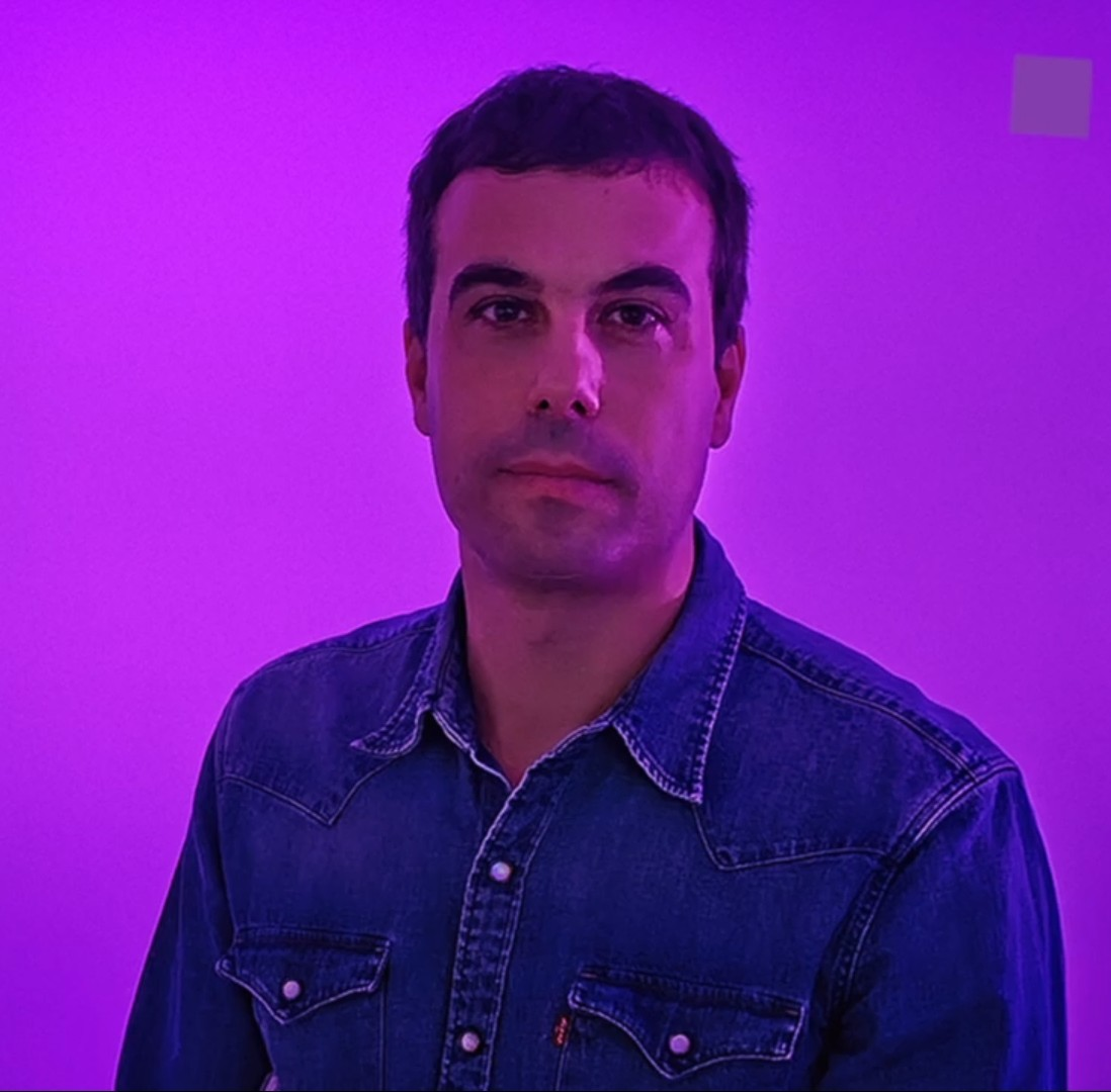 For his solo exhibition at mumok, Christian Kosmas Mayer investigates the dynamic relations between living creatures and inanimate objects. The exhibited objects are witnesses of a frozen moment in time, in which mostly schematically distinct concepts of time such as the past, present, and future, or before and after, and life and death, meld into one. This exhibition explores the theme of conservation both as a natural and as an artificial process of archiving. This is undertaken in order to critically reevaluate history and the present by placing evolutionary and natural phenomena into the framework of cultural history and science. Mayer’s work focuses on critical exploration of questions of archiving and conserving as deliberate acts that create history. 23.02. to 16.06.019. Für seine Einzelausstellung "Aeviternity" im mumok spürt Christian Kosmas Mayer den dynamischen Beziehungen zwischen lebendigen Wesen und unbelebten Dingen nach. Die ausgestellten Objekte sind Zeugen eines erstarrten Zeitflusses, in dem die meist schematisch voneinander abgetrennten Zeitbegriffe von Vergangenheit, Gegenwart und Zukunft, von Vorher und Nachher, von Leben und Tod verschwimmen. Zentrale Bedeutung in seiner Arbeit besitzt die Auseinandersetzung mit Fragen des Archivierens und Konservierens als geschichtsbewusstem Handeln. Die Ausstellung thematisiert Konservierung sowohl als naturbedingten wie auch künstlich herstellbaren Prozess der Archivierung. 23.02. – 16.06.019.